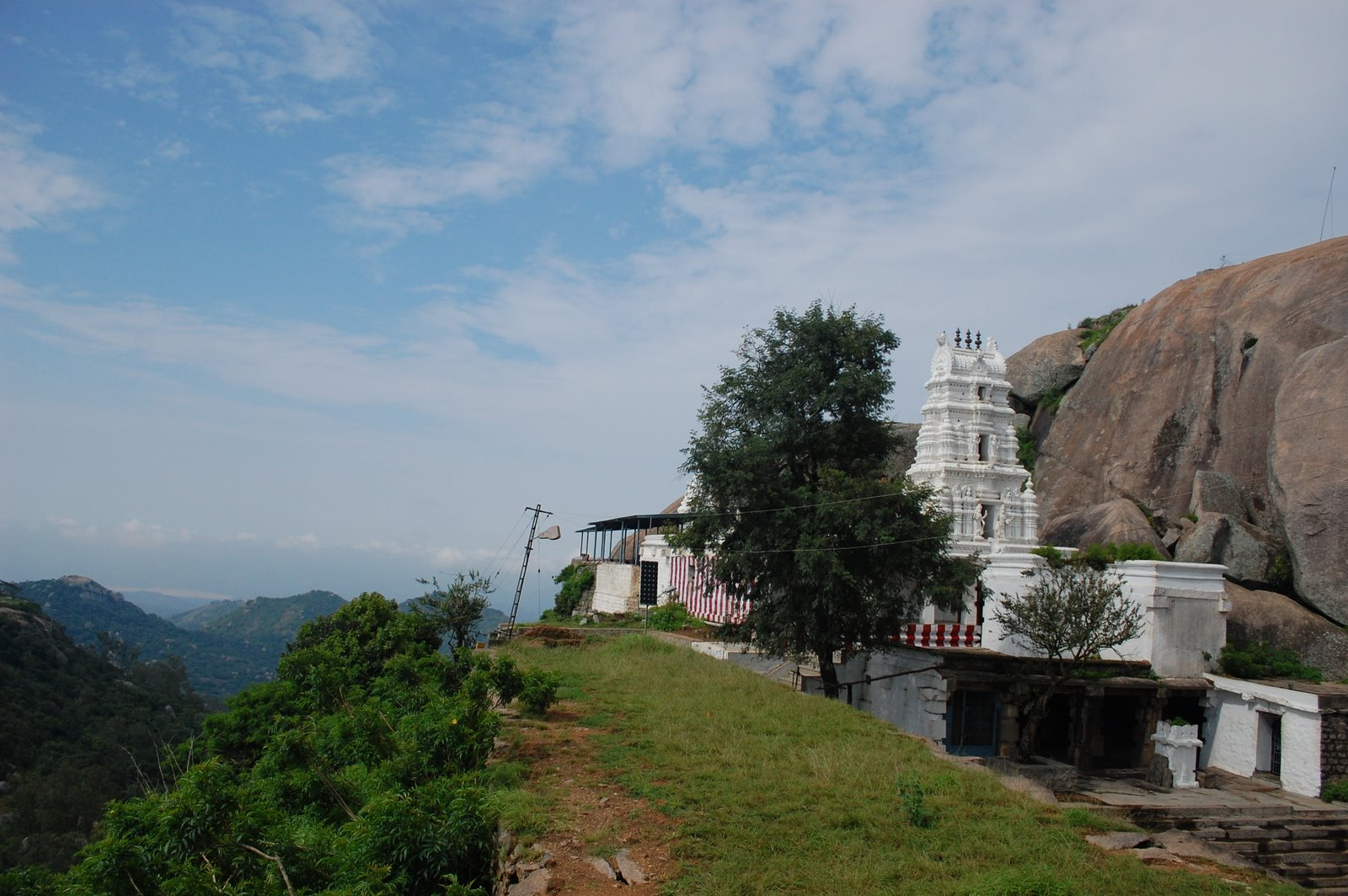 View of Yoga Narasimha temple atop Devarayana Durga hill